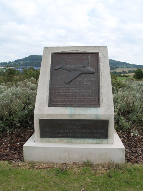 Plaque Commemorating Gloster Aircraft Factory. The Gloster B28/39 First British Jet Aircraft Designed and constructed by Gloster Aircraft Company Ltd. a member of the Hawker Siddeley Group on this site during 1940-41 and powered by the first jet engine invented by Sir Frank Whittle This plaque is also a tribute to all GAC personnel who contributed so much to the 1939-45 war effort Commemorative plaque designed by Gloster Design Services (e&b) ltd.